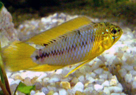 Apistogramma sp., probably umbrella cichlid (Apistogramma borellii) or a hybrid thereof.